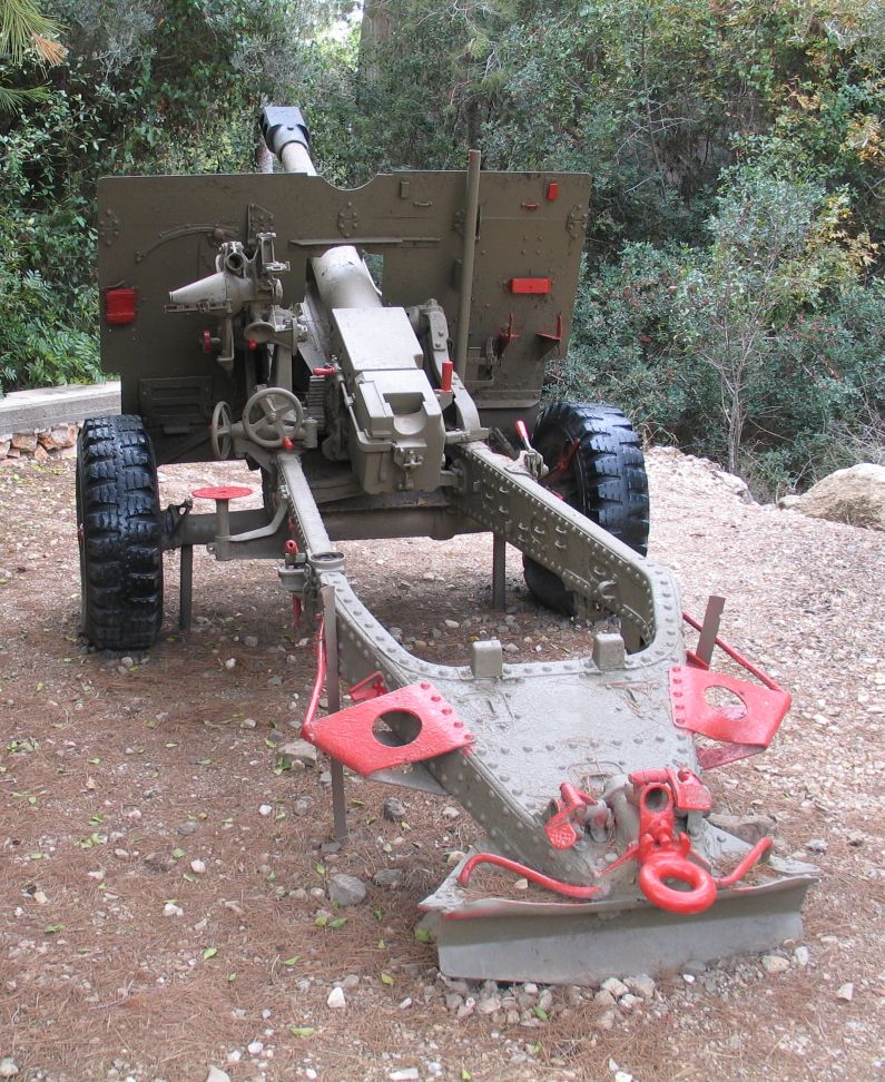 Description: British Ordnance QF 25 pounder field cannon in Beyt ha-Totchan, Zichron Yaakov, Israel. 2005. Source: Photo by me, User:Bukvoed.